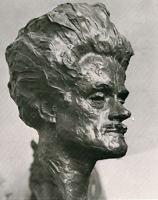 Hugh MacDiarmid, sculpted by William Lamb in Montrose